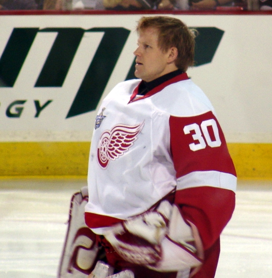 Detroit Red Wings goaltender Chris Osgood prepares for Game 4 of the 2008 Stanley Cup Finals against the Pittsburgh Penguins at Mellon Arena in Pittsburgh, PA.